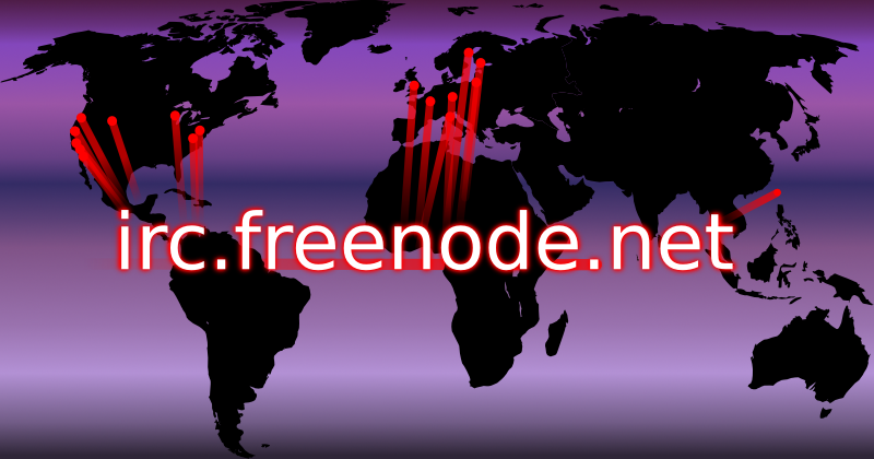 Graphic of distribution of Freenode servers as of June 2008.